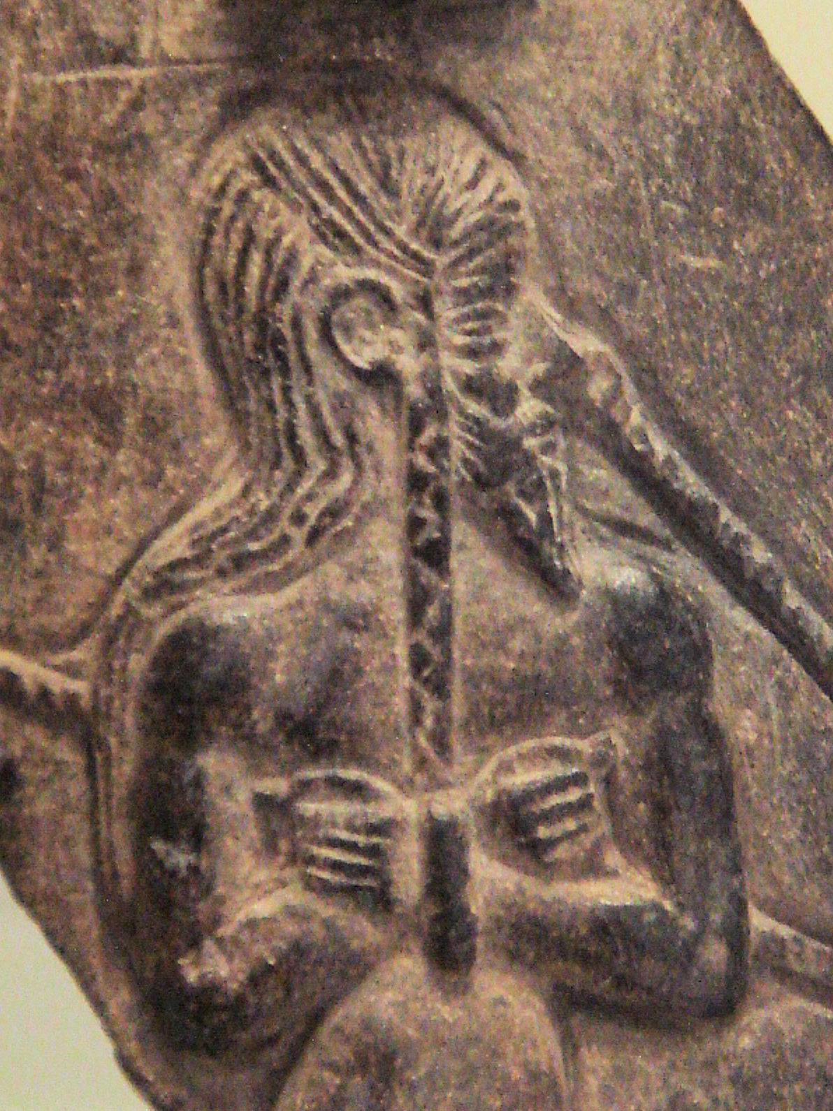 Prisoner of the Akkadian Empire period possibly Warka ancient Uruk LOUVRE AO 5683 (detail)